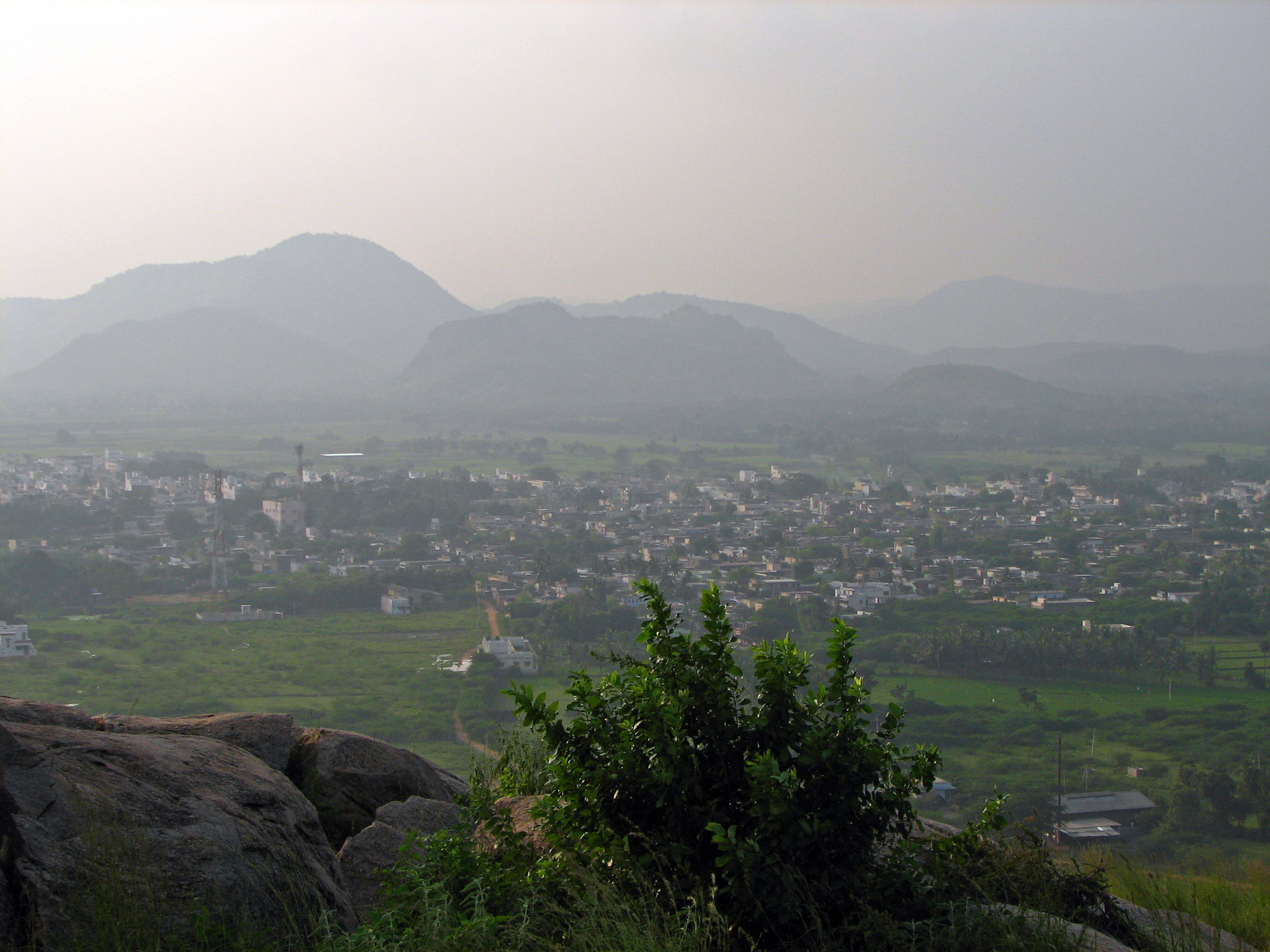 The centre of town of Puttur in Andhra Pradesh, India.